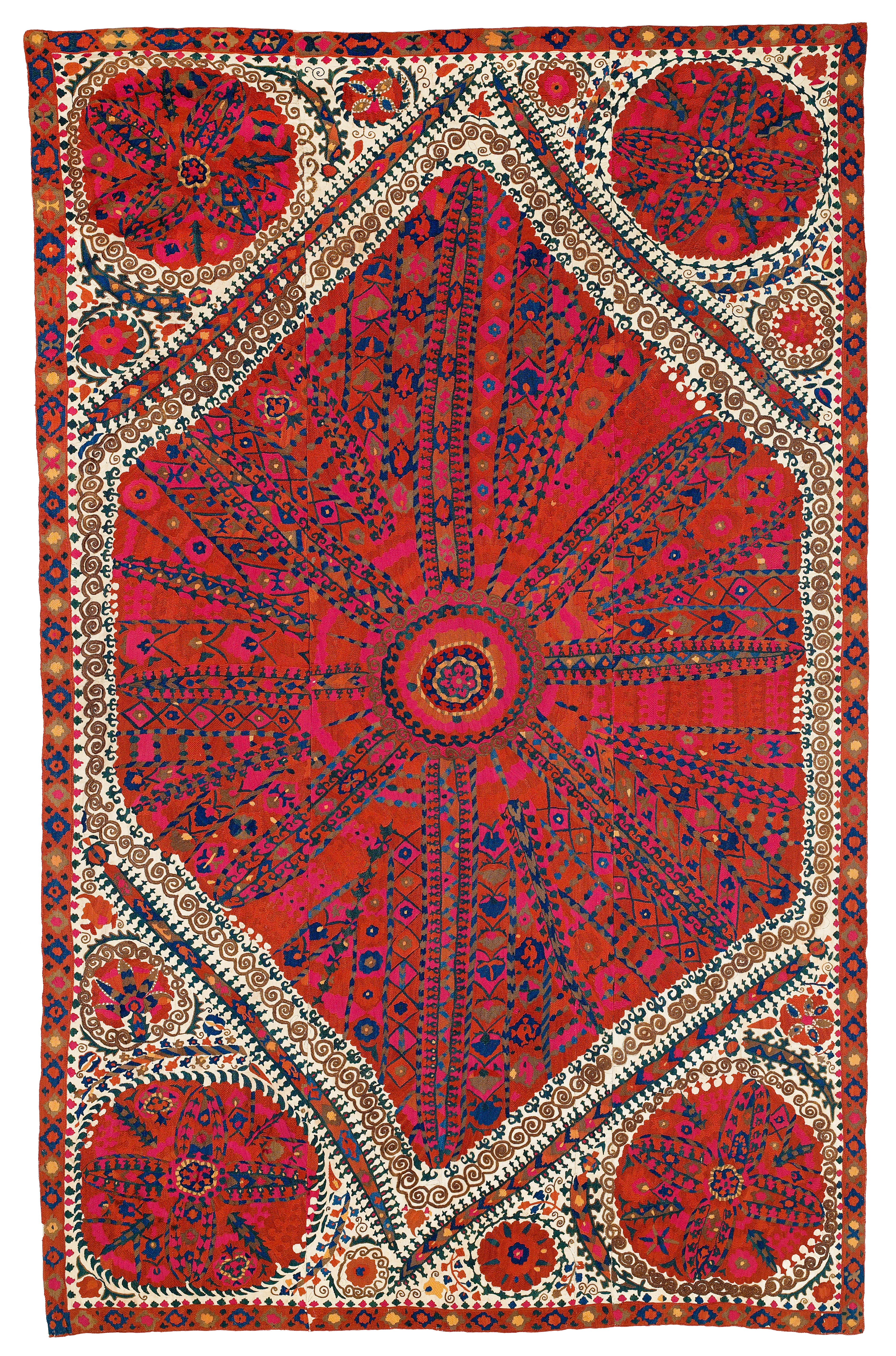 VOK Collection: Suzani 47 The Vok Collection comprises two group A suzanis. Very similar in appearance, the two items are documented as A2 and A10 in the monograph, "The Great Embroideries of Bukhara" published by Franses. The suzani A10 was sold at our first Vok auction (11th April 2015, lot 88) and discussed in detail; we refer readers to the respective catalogue entry. In comparison, A2 appears to be even more powerful than A10: it is somewhat larger in size, and the shield-shaped, fully embroidered medallion fills the field almost completely. Unlike A10, where two of the circular blossoms in the field corners contain a multi-pointed star, all four corners of A2 show the same "spoked wheel" motif. – Good condition. Backed with fabric. Published: VOK, IGNAZIO, Vok Collection. Suzani. Eine textile Kunst aus Zentralasien. (Text: Jakob Taube) München 1994, Nr. 47 *** FRANSES, MICHAEL, The Great Embroideries of Bukhara. London 2000, A2, S. 55 (dort auch alle weiteren Beispiele der Gruppe) Central Asia, South West Uzbekistan, Emirate of Bokhara Dimensions 288 x 187 cm. Age Pre 1800. Estimate EUR 35,000.00 - 40,000.00